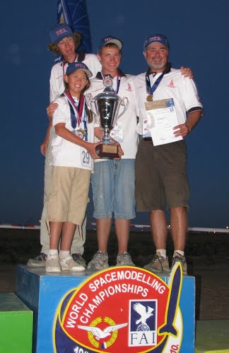 U.S. rocketeers on the winners' stand at the 2010 World Spacemodeling Championships, Vridnik, Serbia